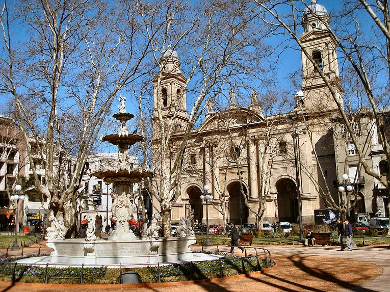 Plaza de la Constitución, Cuidad Vieja, Montevideo, Uruguay. Iglesia Matriz.